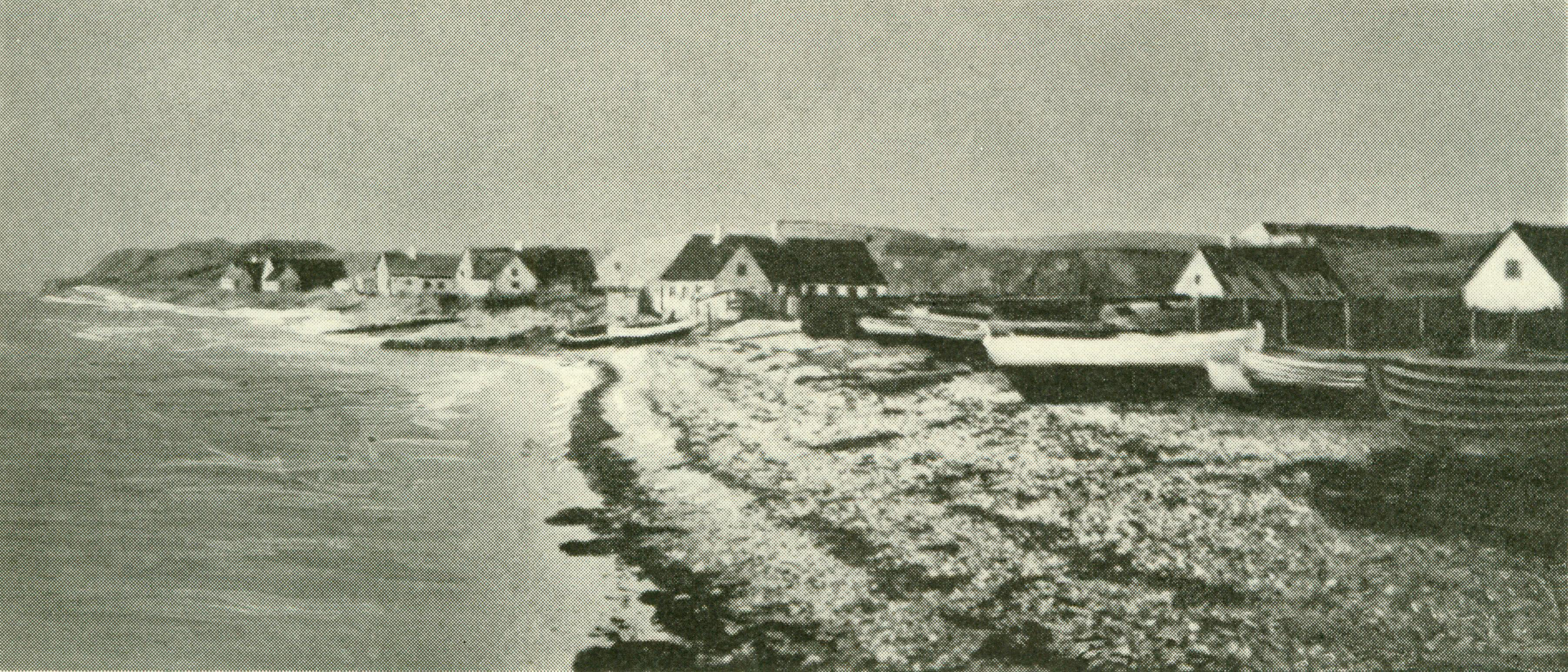 Hundested Harbour, Gundested, Denmark